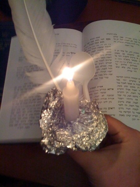 Bedikas Chametz being performed on 2009-04-07